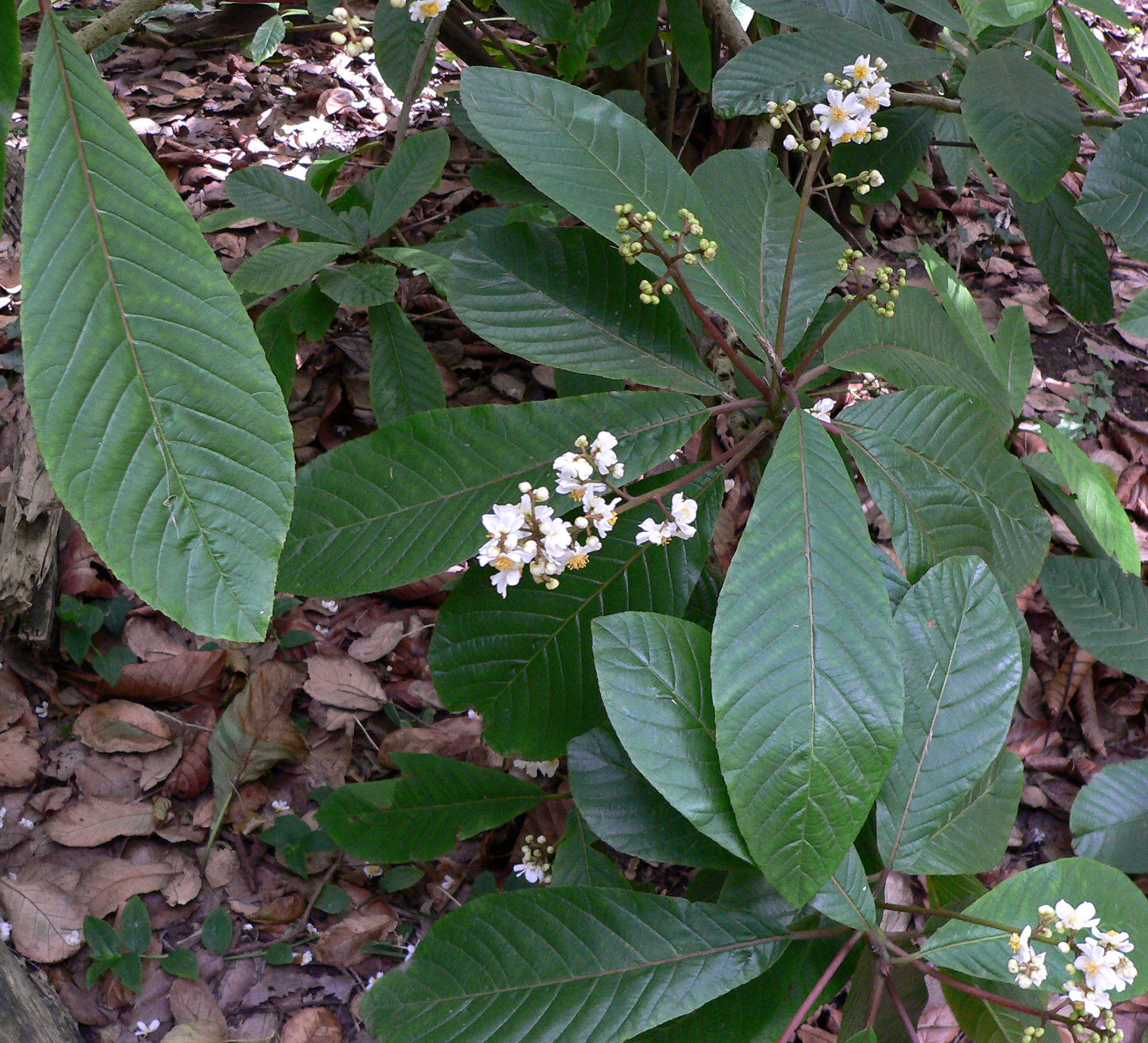 Saurauia zahlbruckneri at the San Francisco Botanical Garden